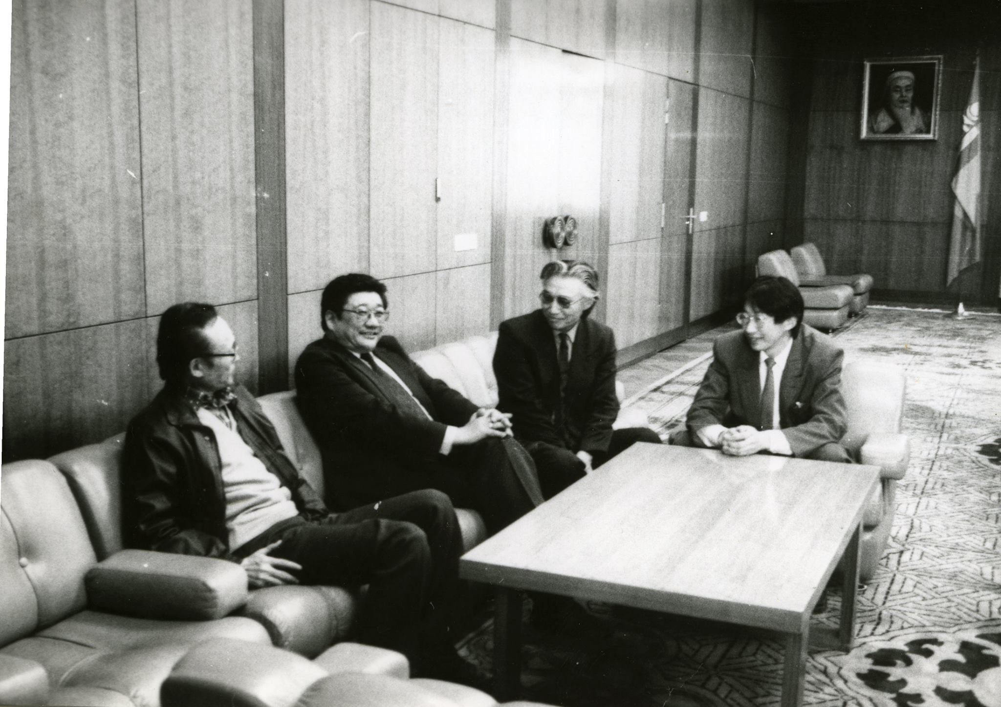 МОНЦАМЭ